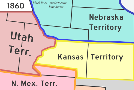 A map of Colorado Territory in 1860. Based off File:Wpdms kansas nebraska utah territories 1860 idx.png